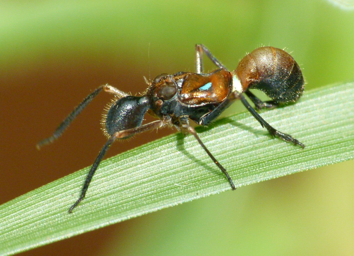 Formiscura indicus, Caliscelidae, Bangalore, India.